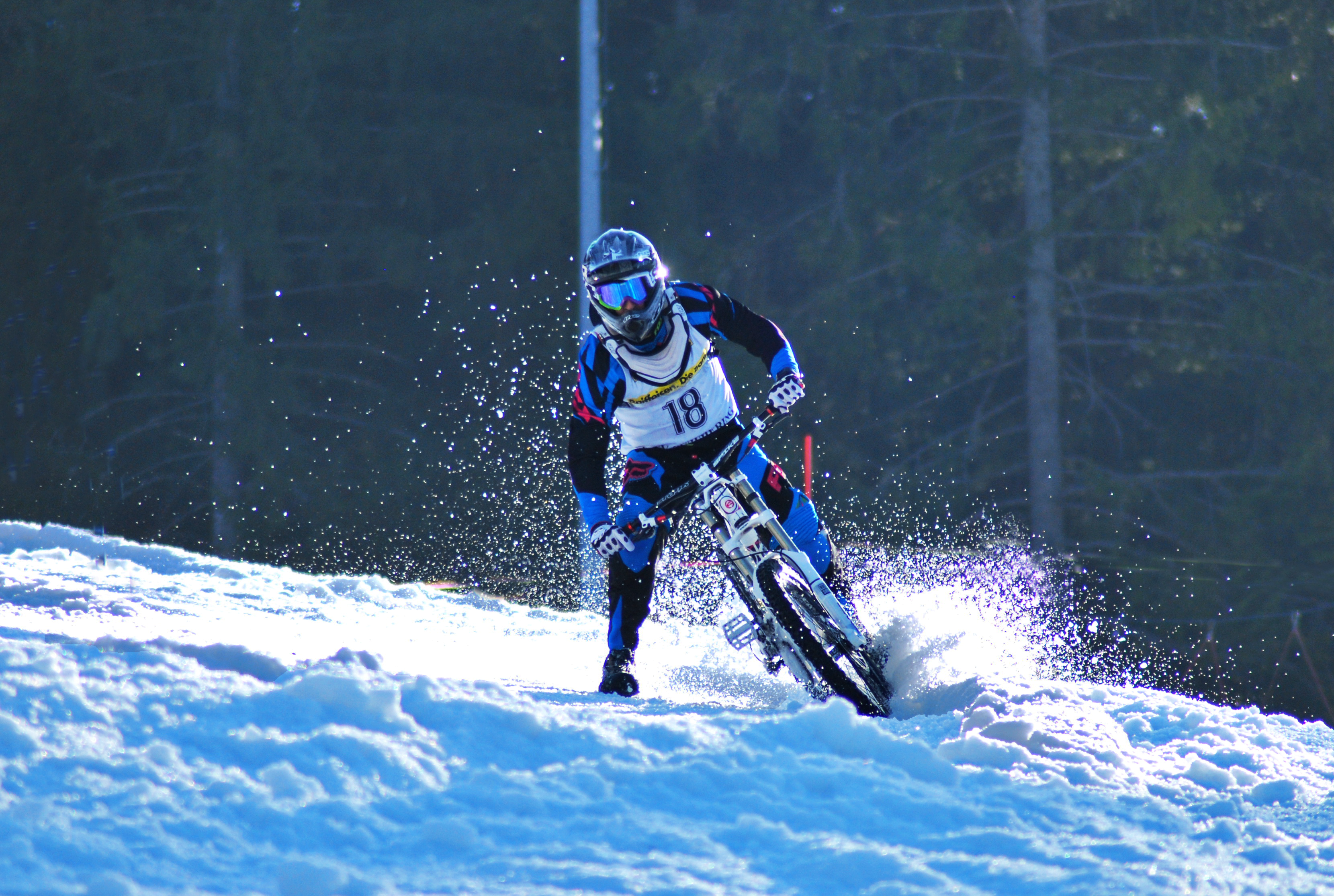 Winter biking at Semmering